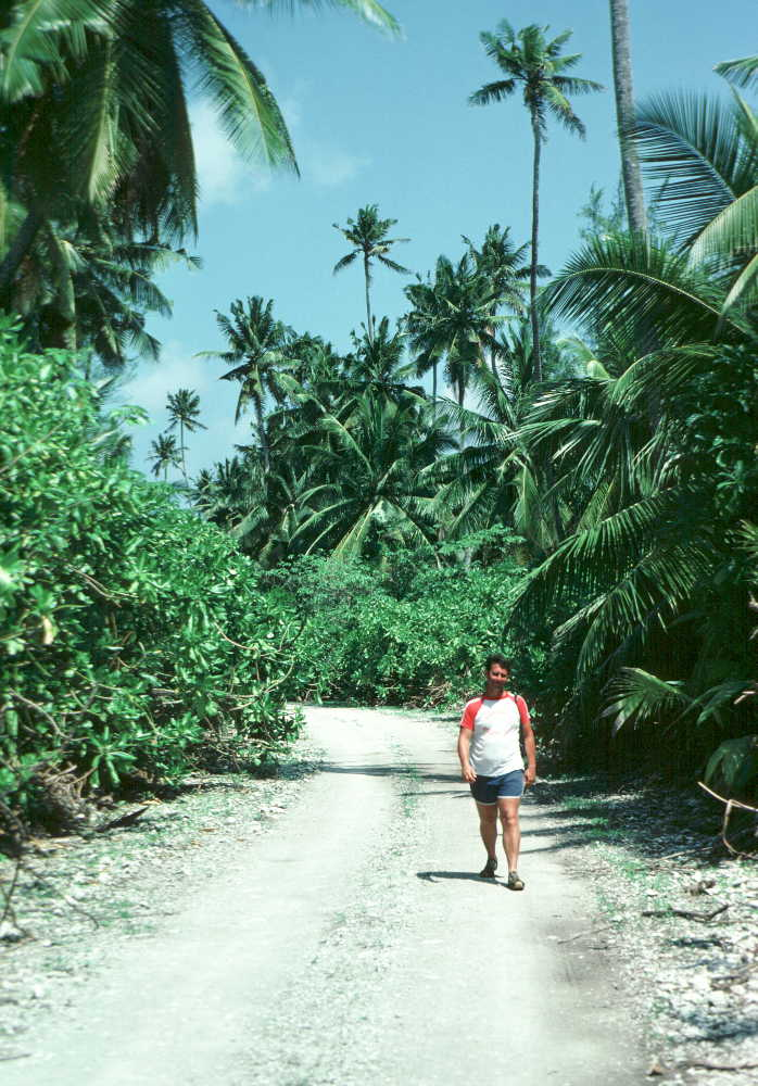 My friend Ted Morris, USAF pilot stationed on DG for MAC operations.